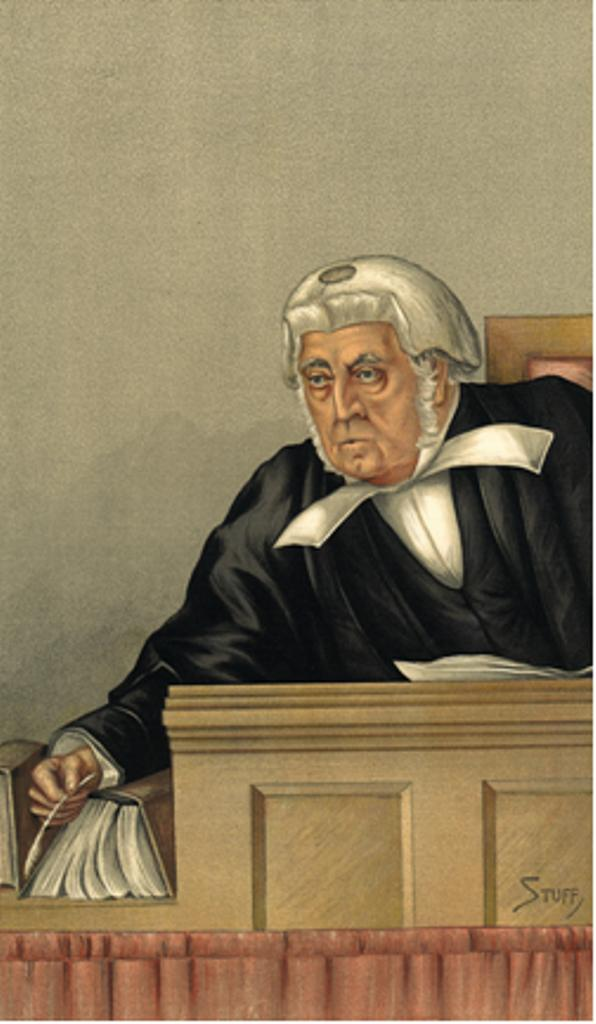 George Denman QC, PC - "He Was an Ornament on the Bench" - Stuff - November 19, 1892